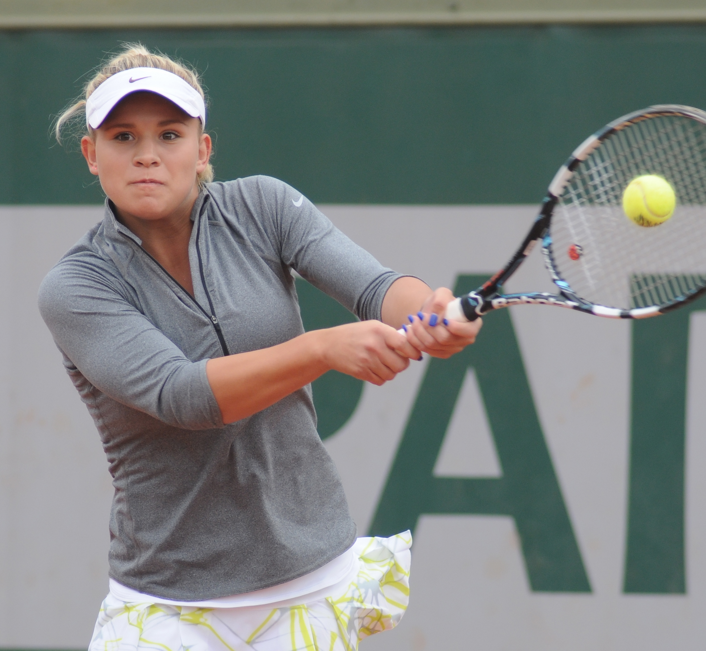 Jana Fett at the 2014 French Open